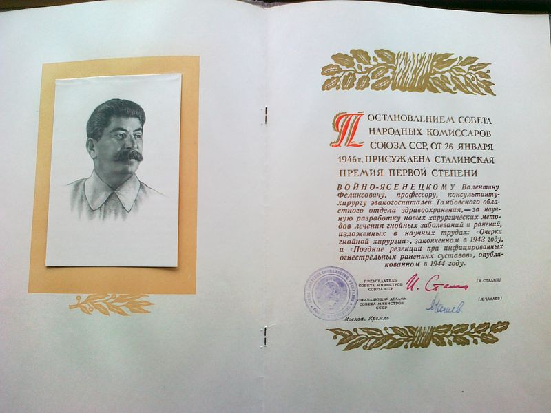 Stalin_Prize_Voyno-Yasenetskiy